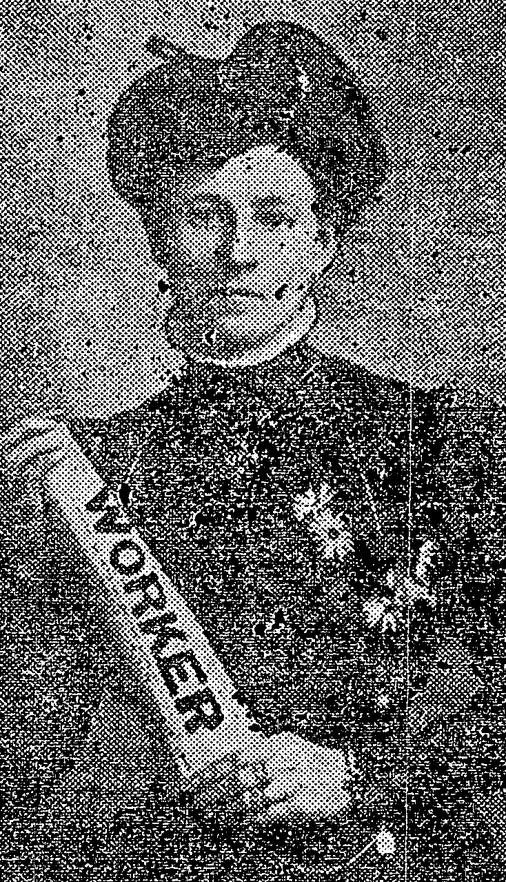 Photographic portrait of political activist Selena Siggins, apparently taken during her time in New Zealand. She appears to be holding a copy of either the Australian Worker or the Maoriland Worker.